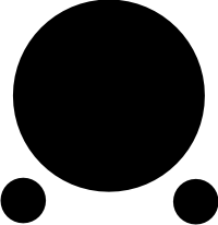 Armeeabteilung Kempf unit marking during Unternehmen "Zitadelle".